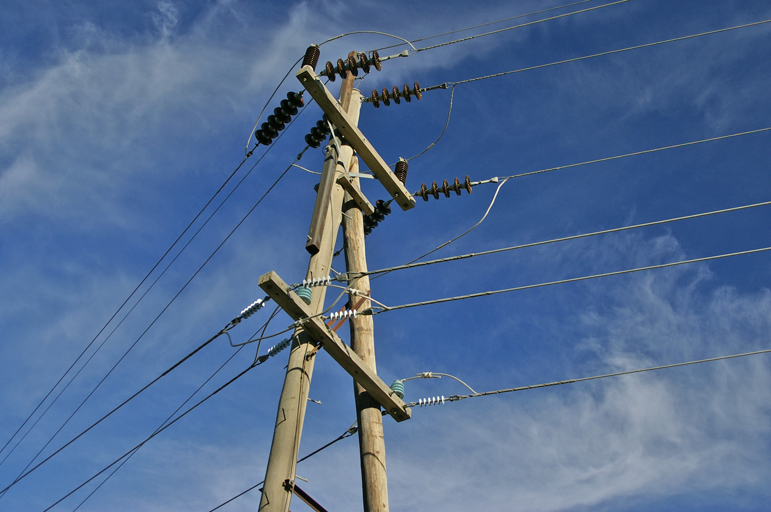 Strain insulators in use for high voltage powerlines